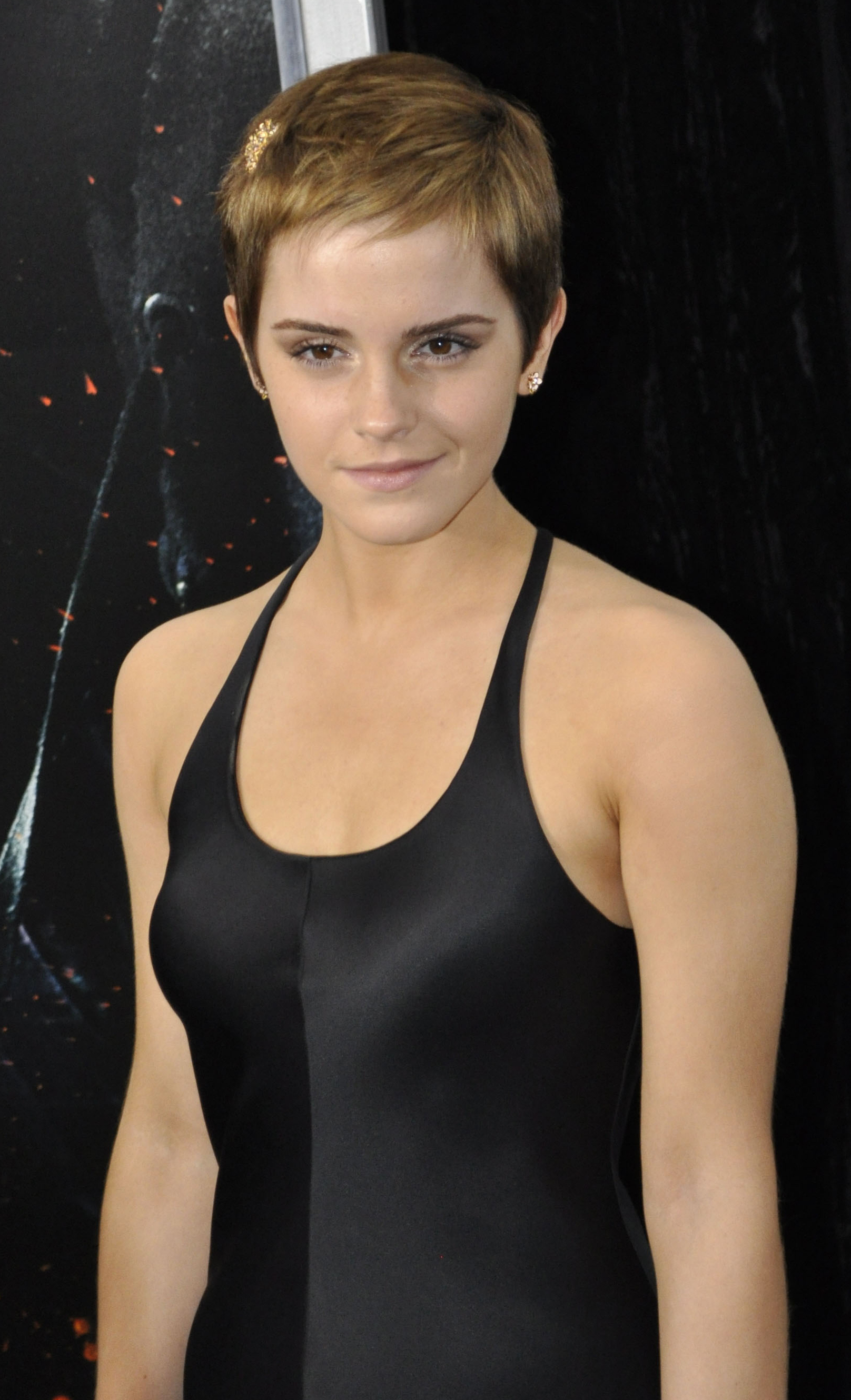 Emma Watson at the film premiere of Harry Potter and The Deathly Hallows in Alice Tully Center, New York City in November 2010.